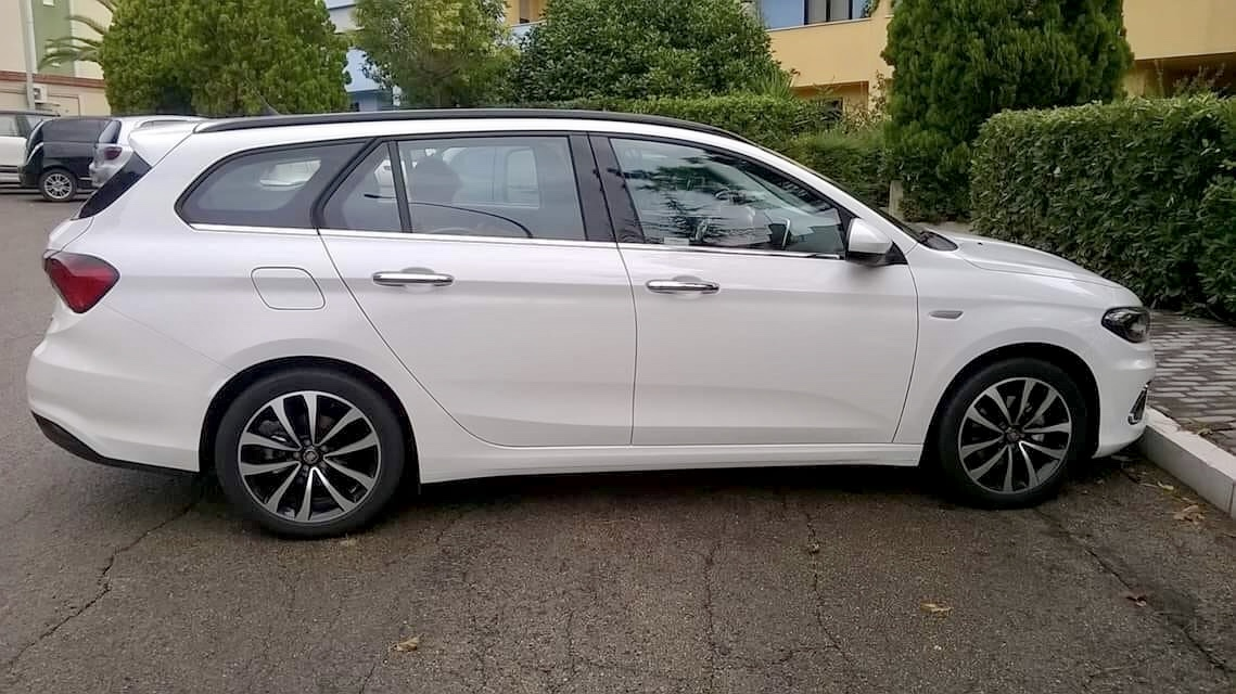 Fiat Tipo SW 1.6 Multijet